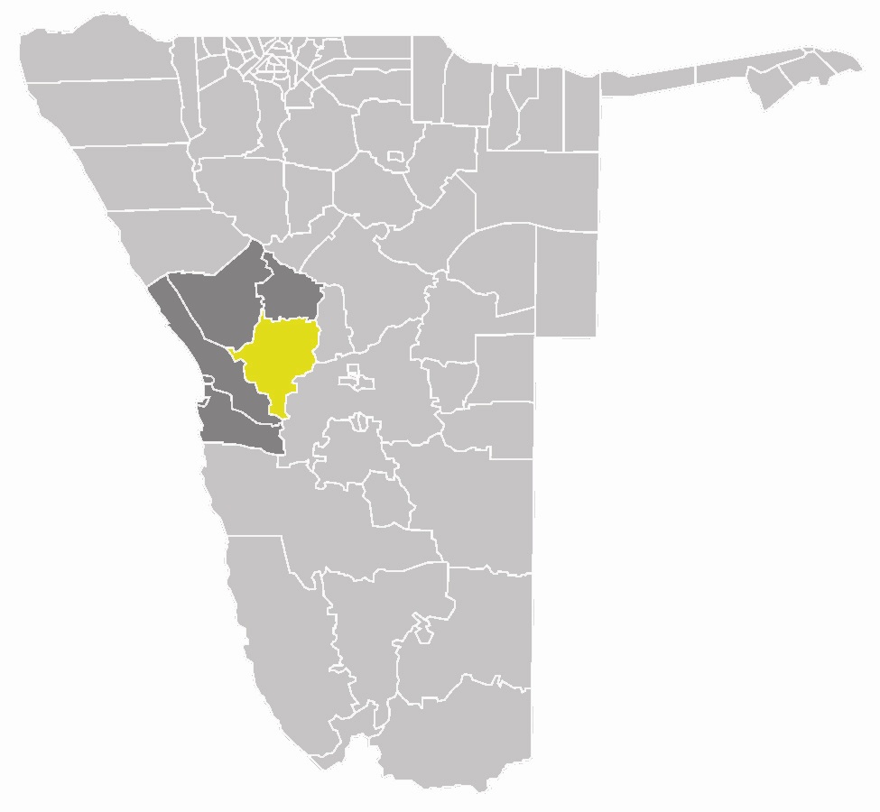 map of the Karibib constituency within the Erongo region, Namibia